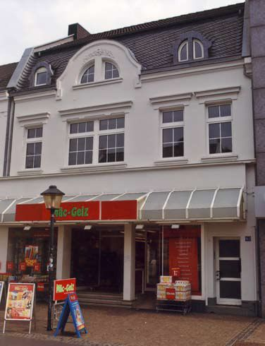 Das historische Haus Nr. 47 in Bergheim.